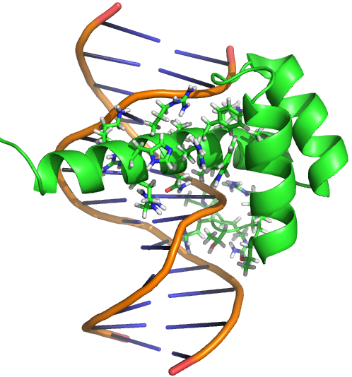 The Bicoid homeodomain is shown bound to its TAATCC consensus sequence. This is a PyMOL rendering of RCSB PDB entry 1ZQ3, an NMR structure obtained by Baird-Titus et al. (2006).